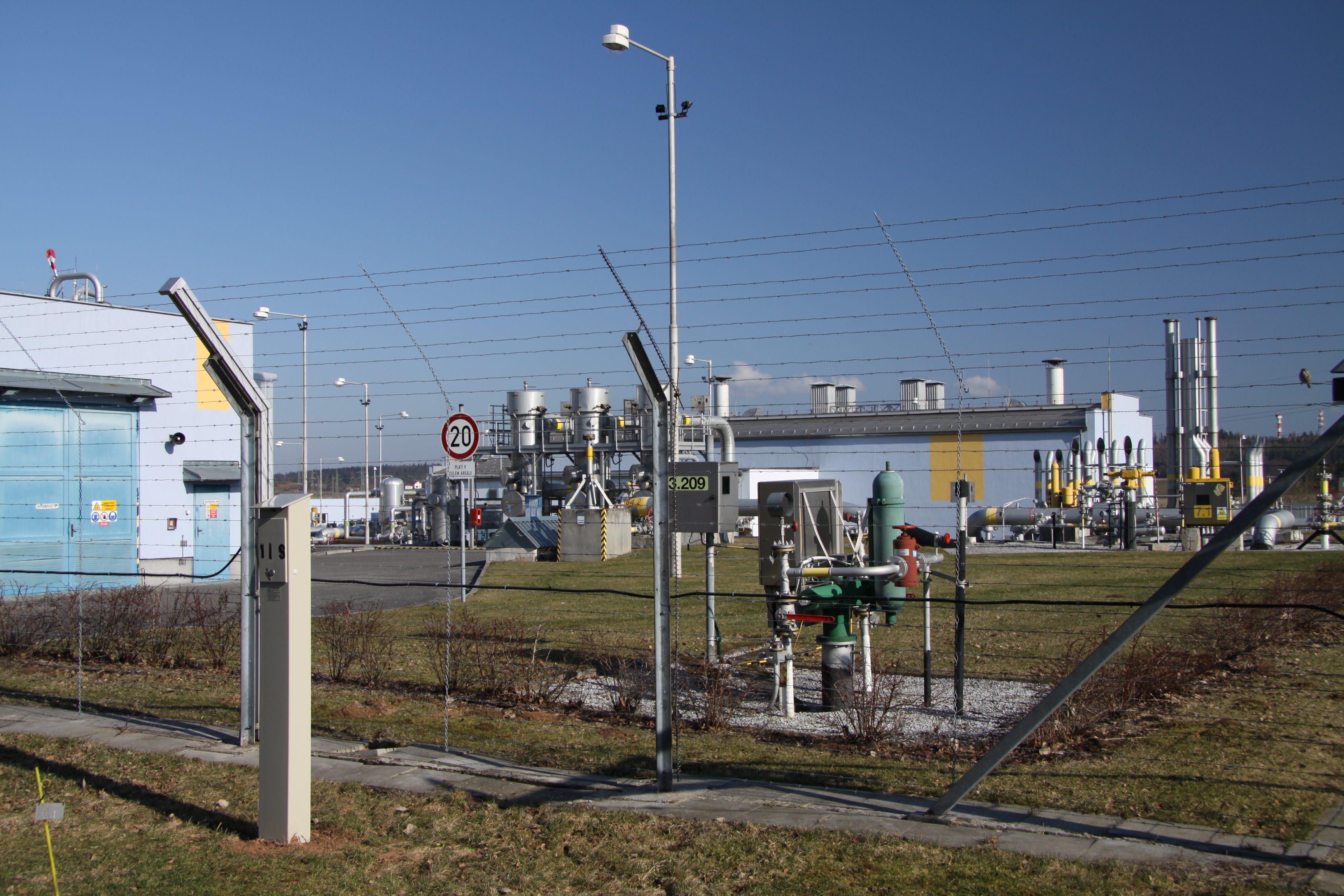 Underground natural gas storage Háje near Milín village in Příbram District, Czech Republic